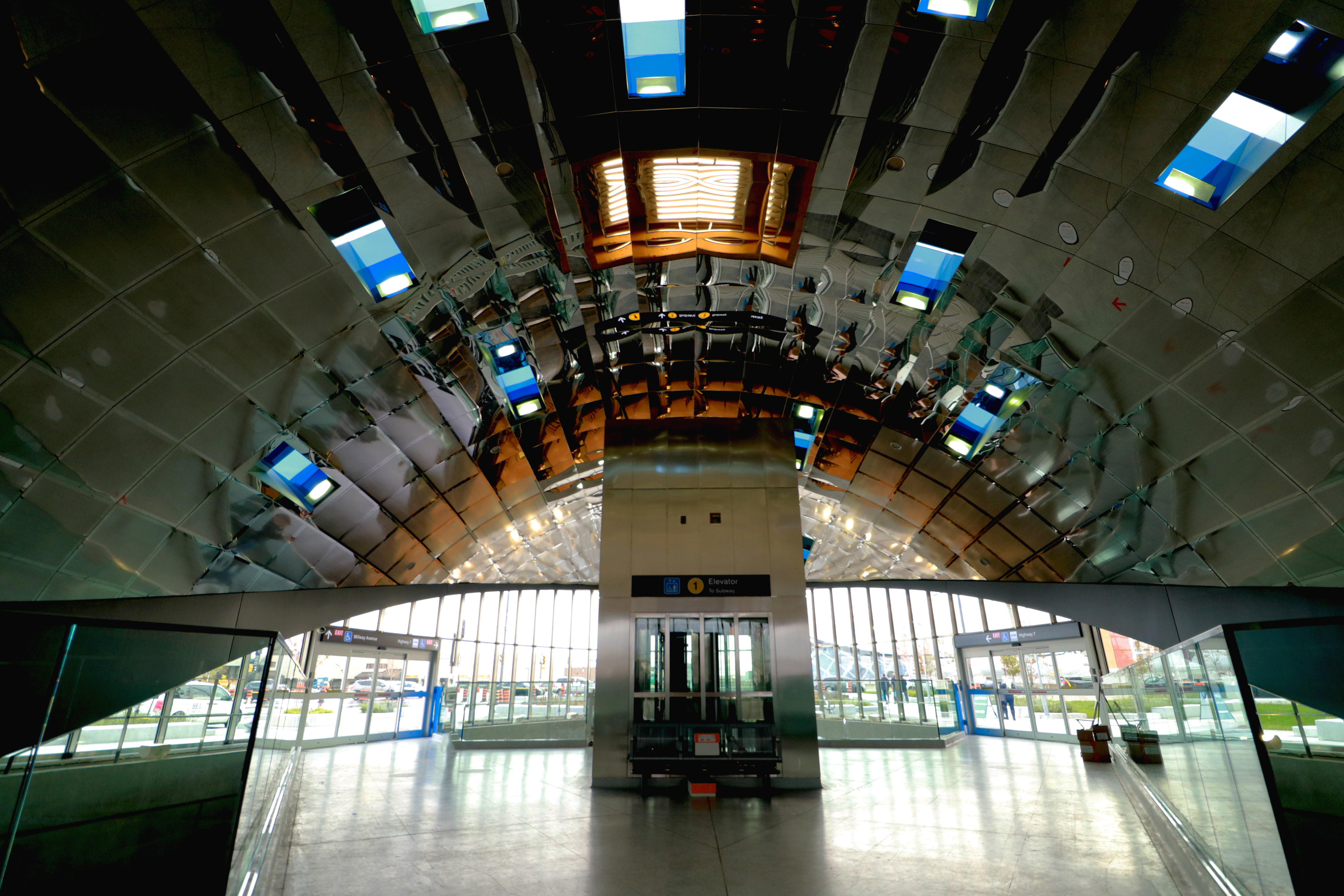 Vaughan Metropolitan Centre Station